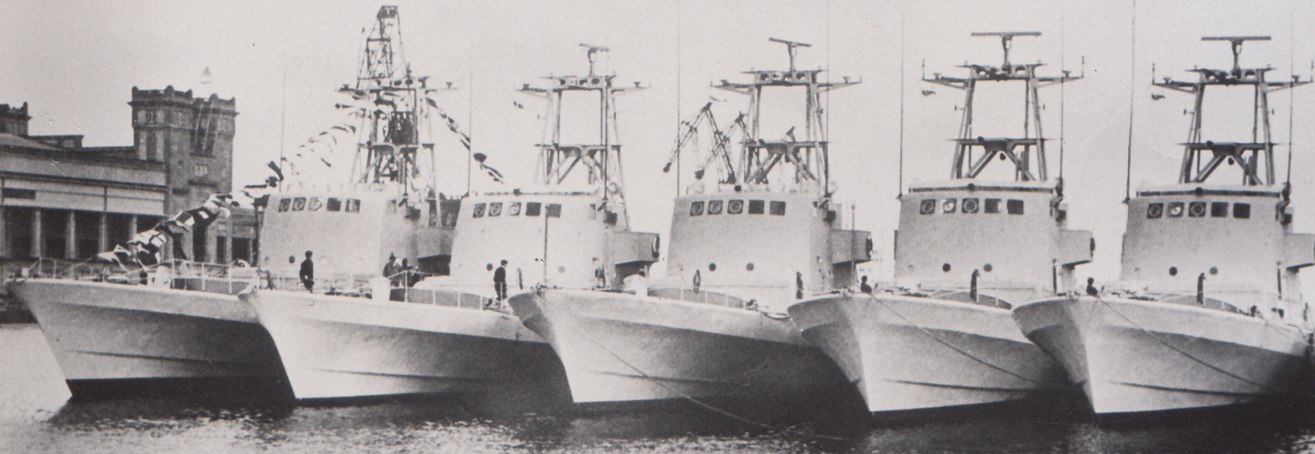 The five vessels waiting in Cherbourg